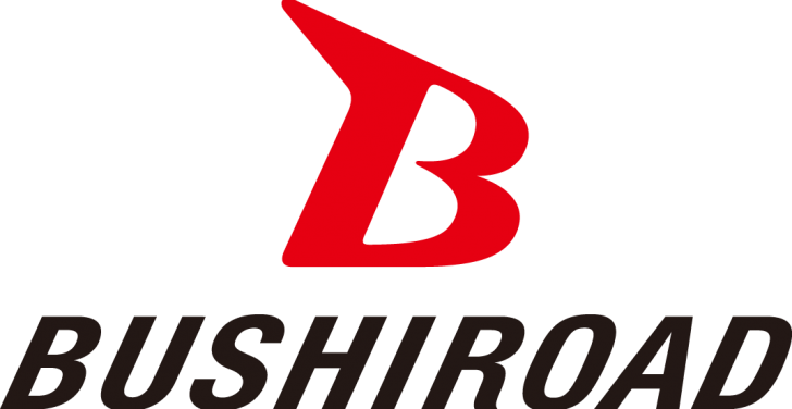 Logo for Bushiroad, introduced in 2017.